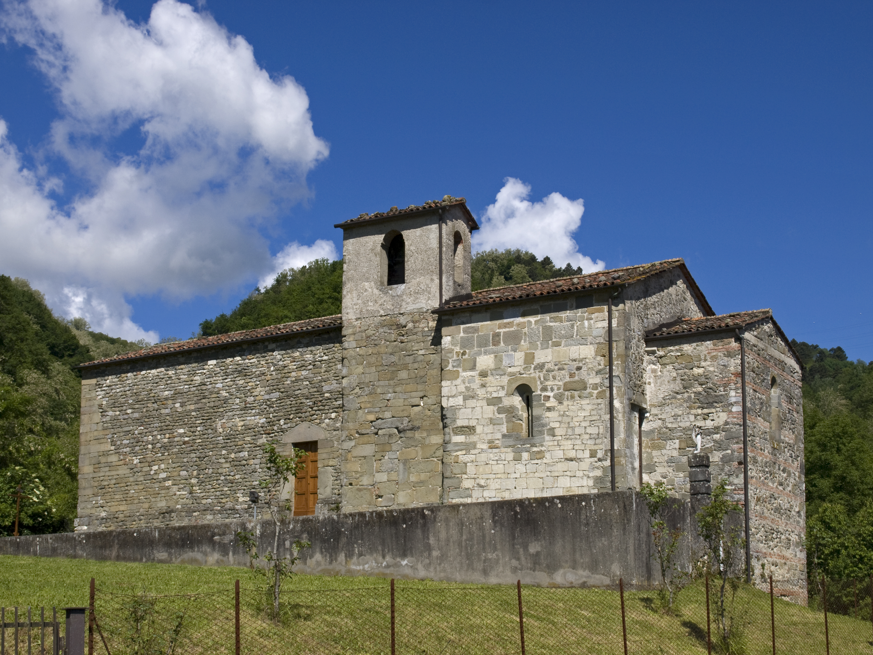 Santa Maria church in Gallicano